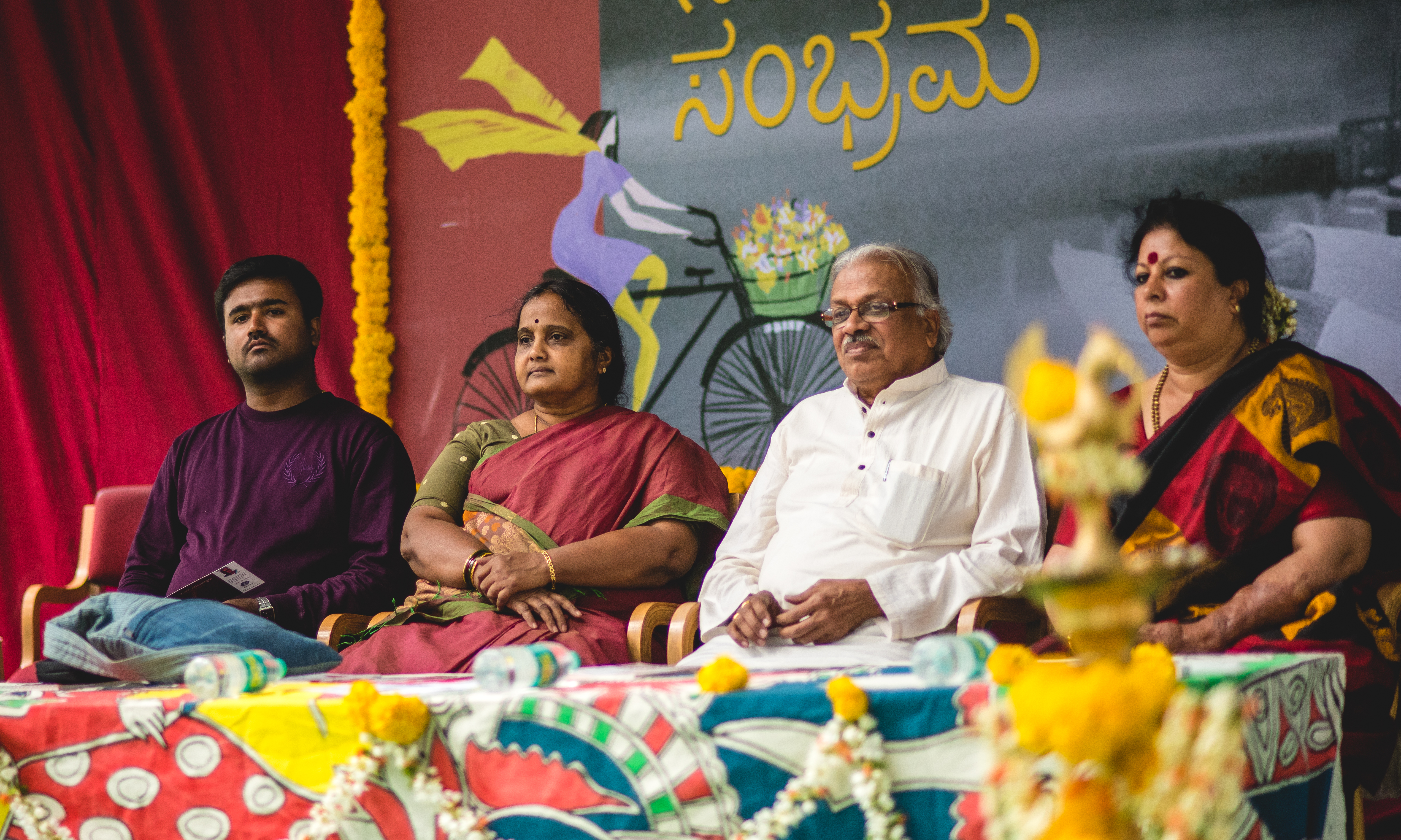 aneka ksn 100 program